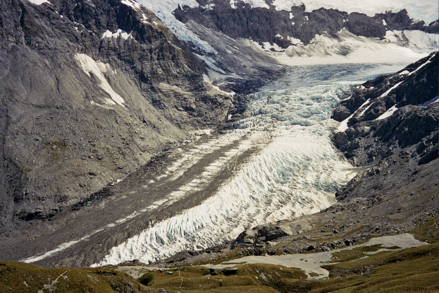 Photograph of the Dart Glacier in New Zealand taken from Cascade Saddle.